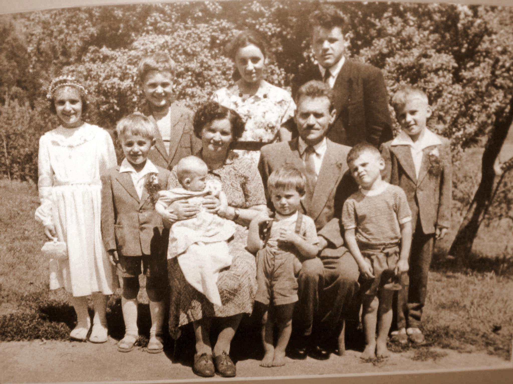 My picture from 1959 with my family I photographed